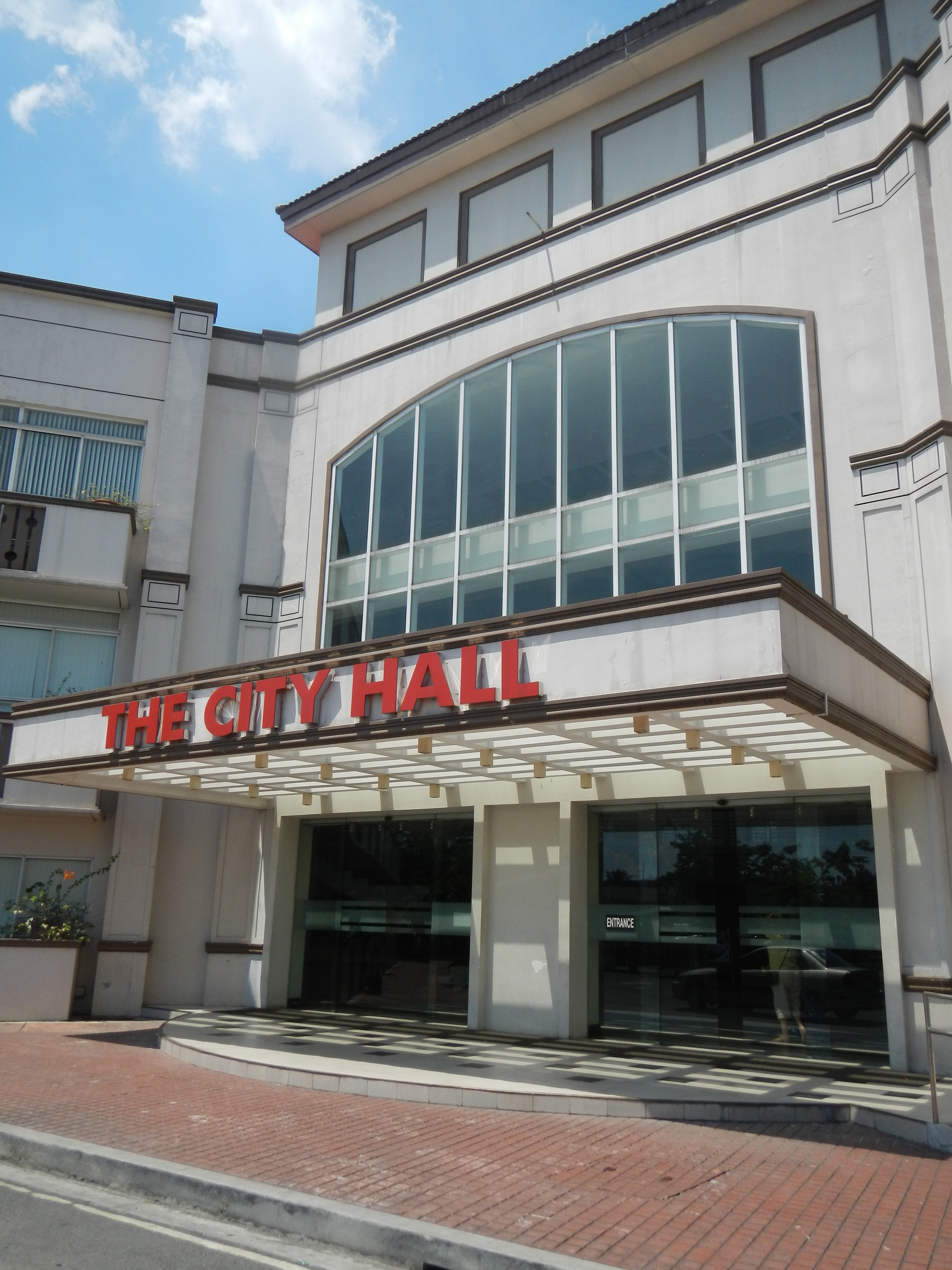 New Valenzuela City Hall in New City Government Center Complex, inaugurated on November 9, 2009 located at Barangay Karuhatan, Valenzuela City, McArthur Highway, Valenzuela, Philippines (List of barangays in Valenzuela- Valenzuela).